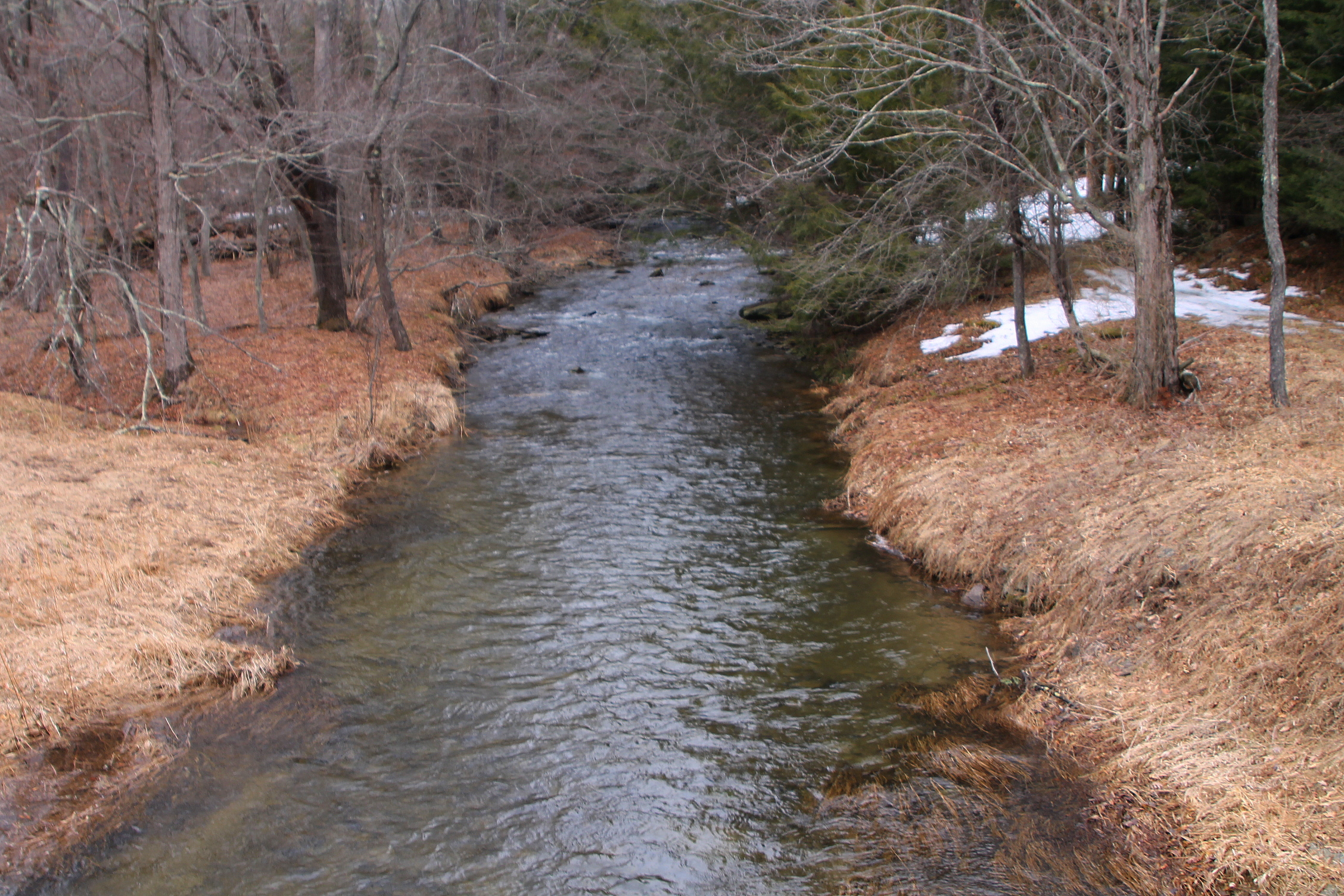 Huntington Creek looking upstream below Mitchler Run but above Laurel Run